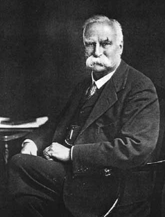 Photograph of British Darwinist and zoologist E. B. Poulton, taken by James Lafayette.